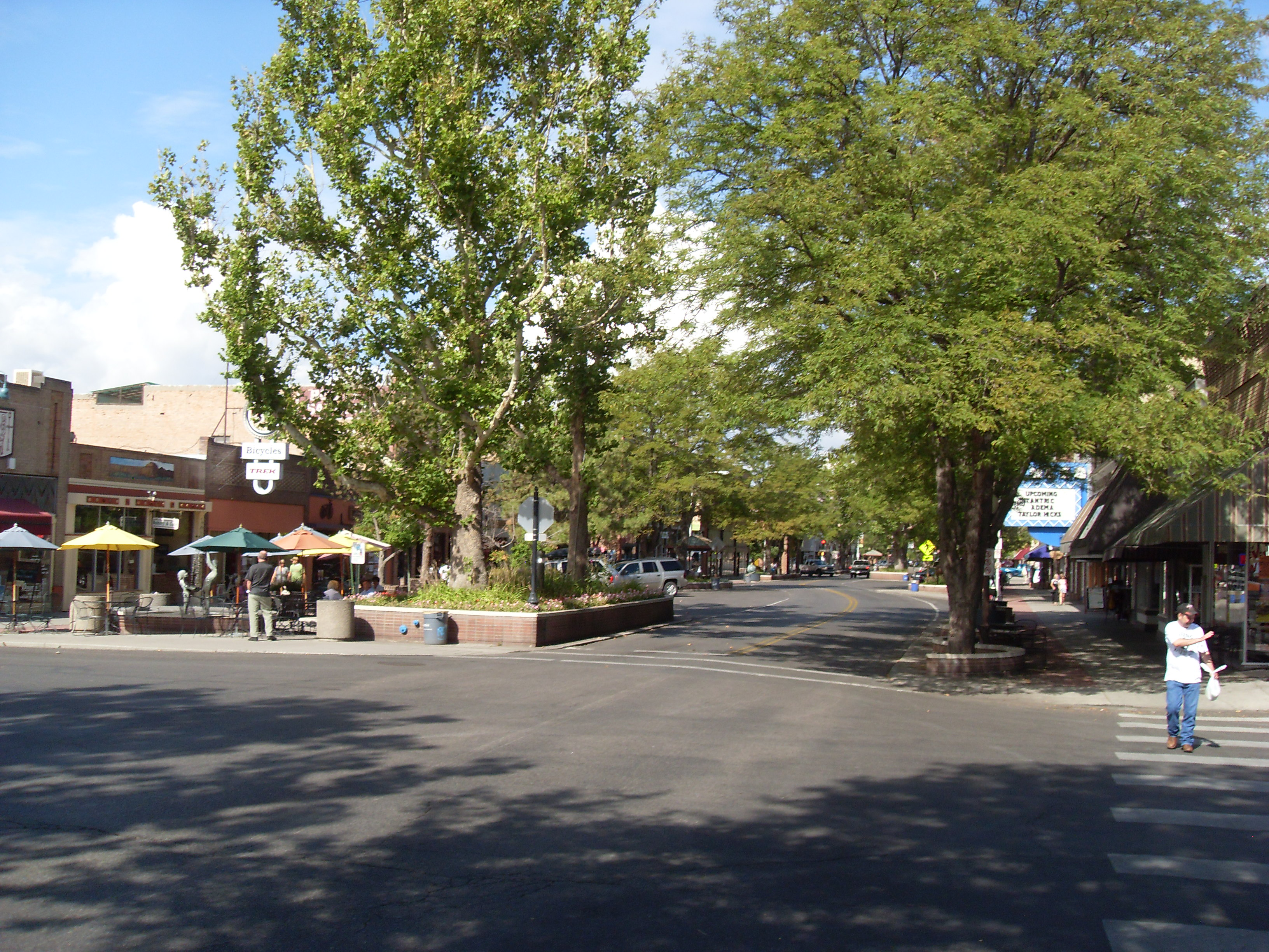 Grand Junction city centre